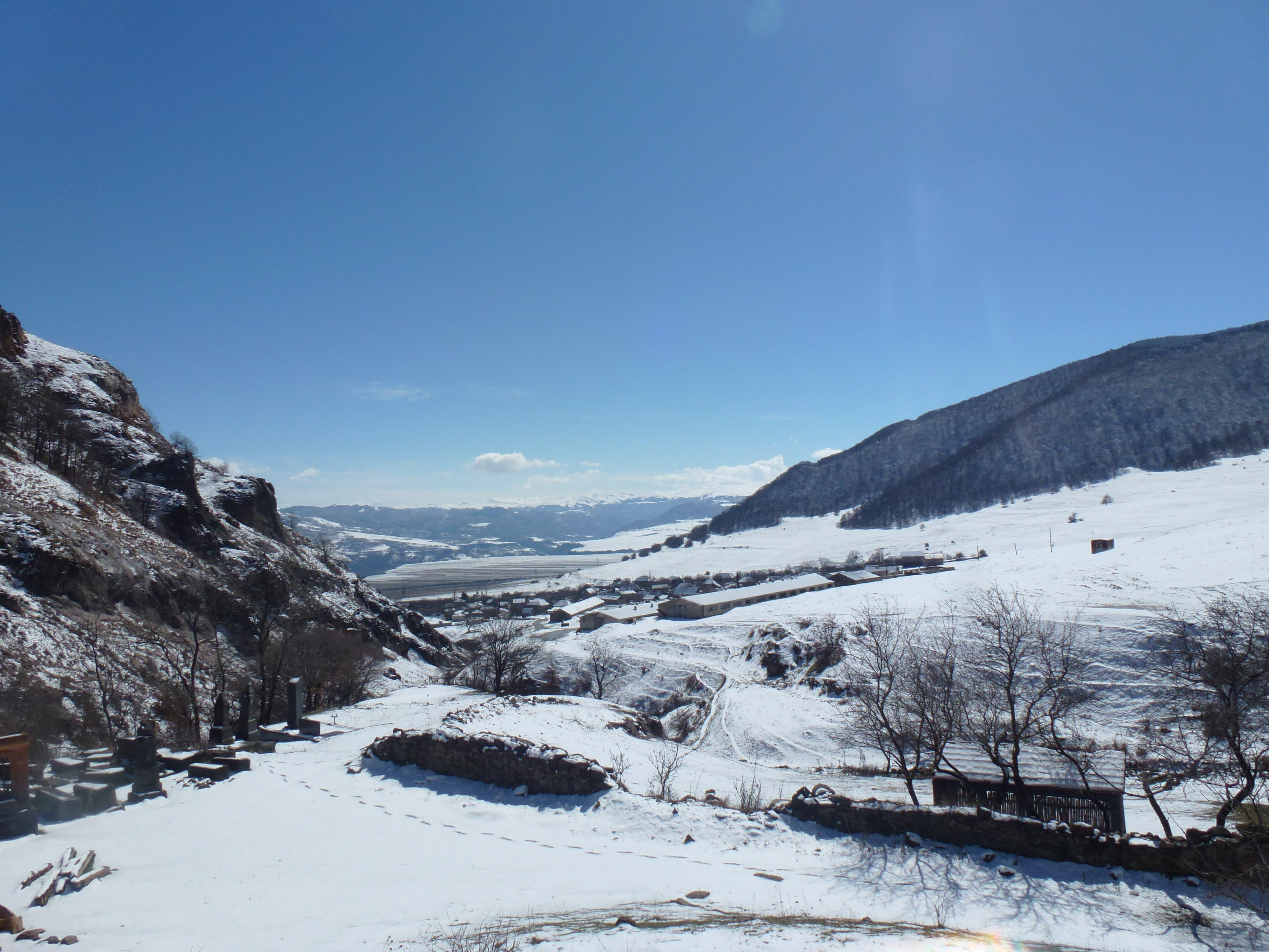 View Ardvi village from churches.